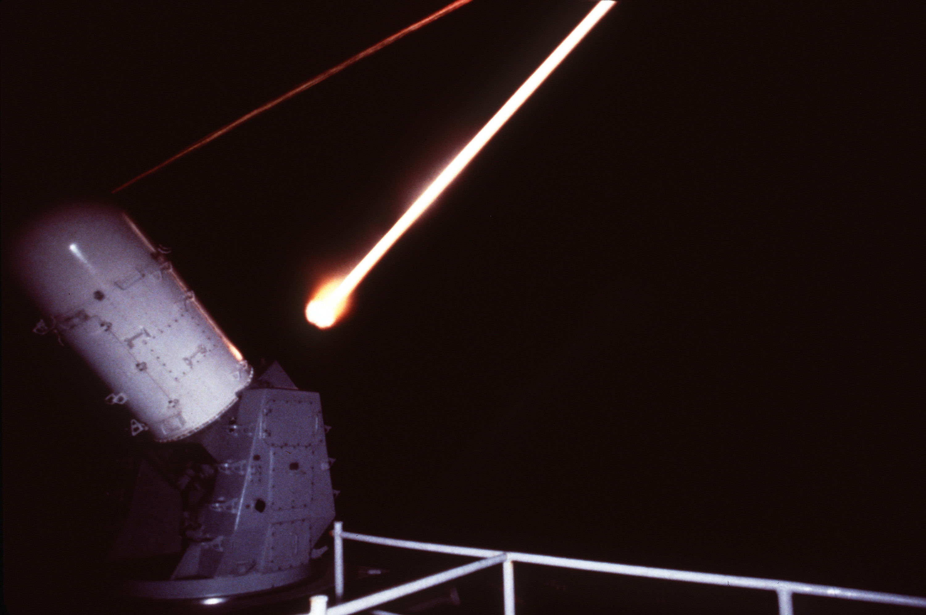 A night time test firing of the Phalanx Mark 15 Close In Weapons System (CIWS) located on the port side forward on board the nuclear-powered aircraft carrier USS ABRAHAM LINCOLN (CVN-72). In the background can be seen the tracer fire from the port stern CIWS.